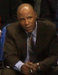 Mario Elie, assistant coach for the Dallas Mavericks